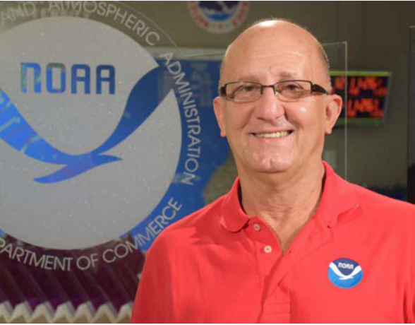 NHC Hurricane Specialists Unit senior member Lixion Avila, Ph.D.